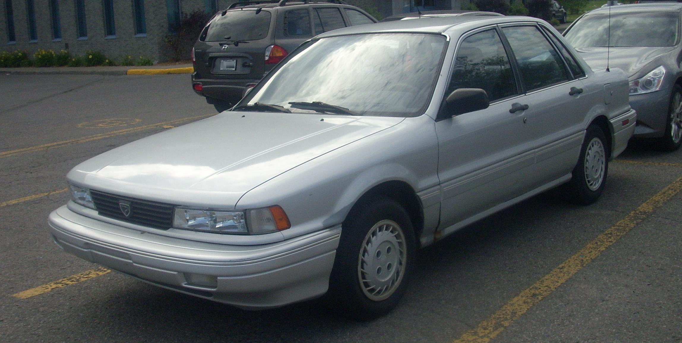 1989-1992 Eagle 2000GTX photographed in Montreal, Quebec, Canada.